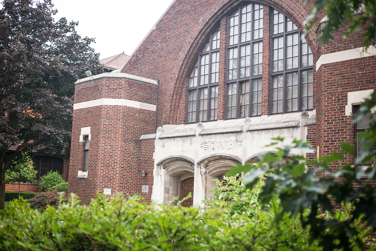 Carlow University St Joseph's hall main entrance